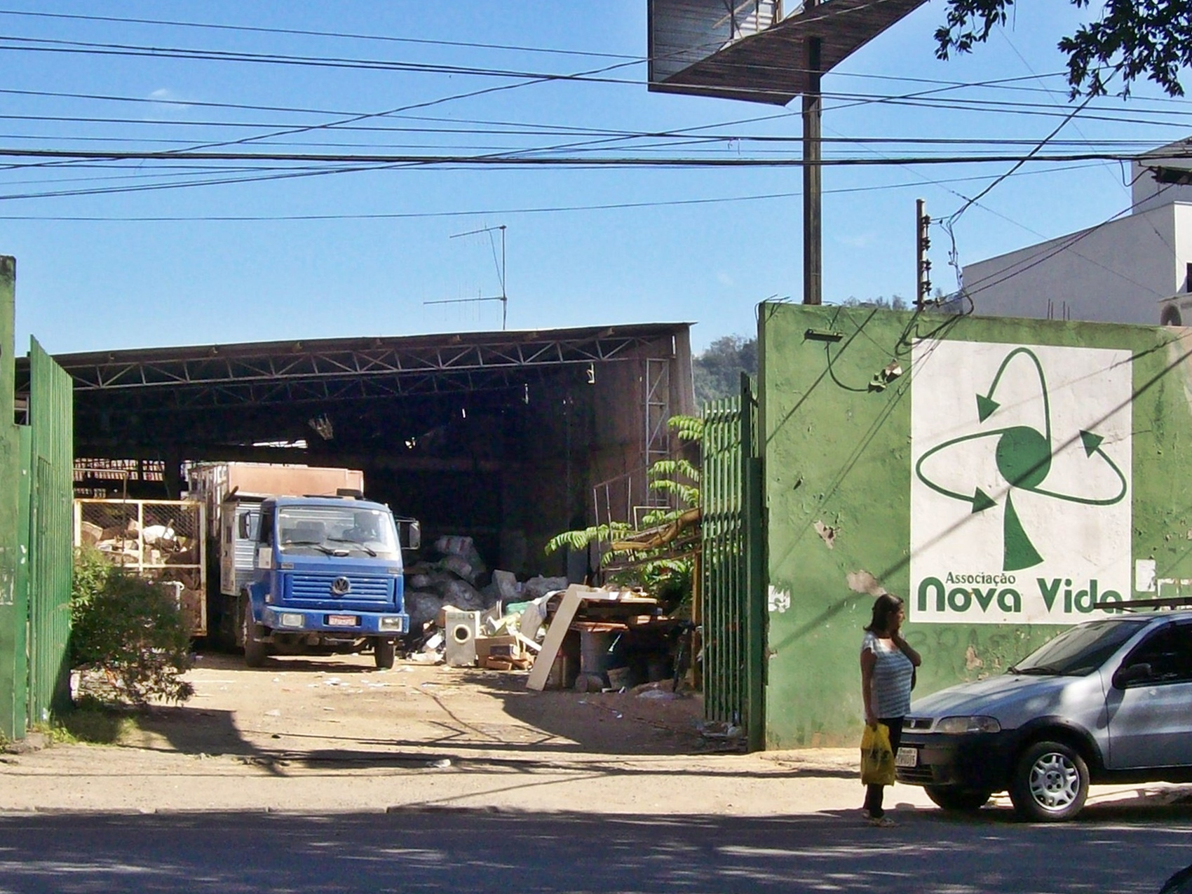 Head office of the Nova Vida association, in Coronel Fabriciano, Minas Gerais, Brazil.